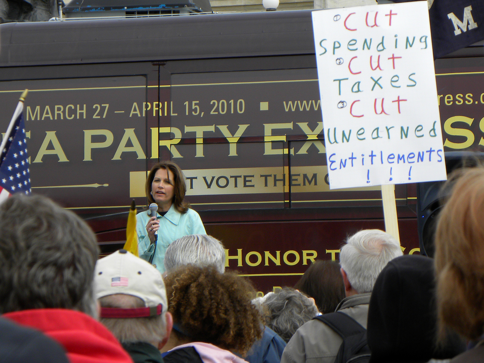 US Representative Michele Bachmann (R-Minn) addressing a Tea Party Express rally outside the Minnesota state capitol building.